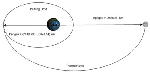 Orbital Mechanics It is essential to have knowledge of orbital mechanics to understand space operations as it holds a cornerstone value in orbital path design. Orbital mechanics is the study of the motion of planetary objects, artificial satellites, and space vehicles. This field deals with trajectories of space bodies, their orbital changes, and interplanetary transfers. In this section, we will study the orbital mechanics that have been designed for our rocket to lift off from Earth and carry a payload to the Moon. In this section, we will shed light on various planetary laws and fundamental principles dealing with space flight mechanics.